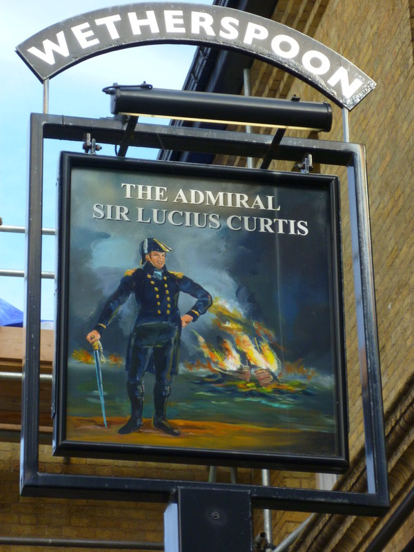 Photo of of sign at The Admiral Sir Lucius Curtis Public House at The Solent Way in Southampton